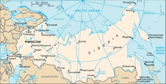 Map of Russia, showing major cities.